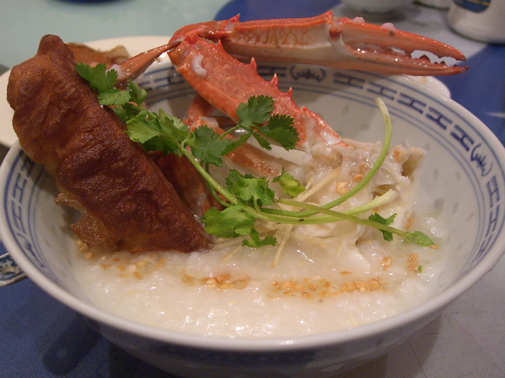 花蟹粥 Blue Swimmer Crab Congee with garlic oil, garnished with shredded ginger, coriander and spring onions served with a 油条 Chinese doughnut. mmm... --- We decided to have blue swimmer crab congee for dinner one night, so I got a couple of fresh blue swimmer crabs from the Queen Vic Market for around AUD7 (AUD15.99/kg), and a Golden Bream (AUD13.99/kg) for later. As it turns out, the blue swimmer crabs were really fresh! They smelt briney like the sea, with not even the faintest whiff of ammonia or fishiness. I tasted some of the raw roe and it was fantastic! Not as rich as the kani miso I had in Japan, but very tasty nonetheless. I also tried some of the raw flesh and that was tasty too and it just seemed to melt in your mouth, but not that tasty. Perhaps that's why you never find raw crab on the menu in Japan, always cooked or grilled. I removed the gills, broke them in half, and into the pot of congee. The shells went under the grill. The resulting congee was very tasty, but the flesh of the crab was tastier still!